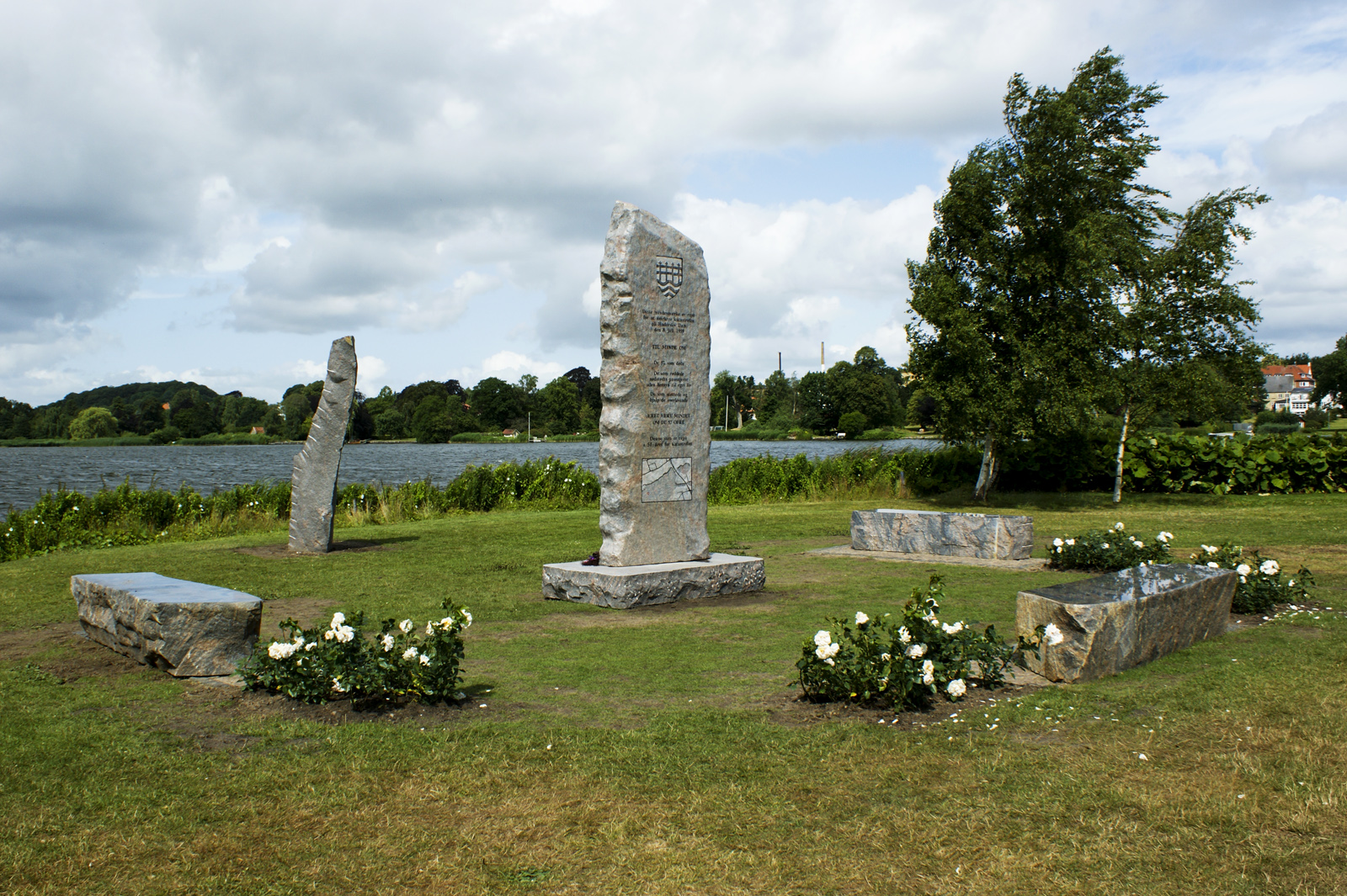 Memorial Stone in park in Haderslev in Denmark